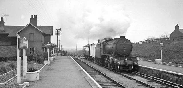 Bempton Railway Station in 1961. Bempton, East Riding of Yorkshire, England.View SE, towards Bridlington; Selby/York/Hull - Driffield - Bridlington - Filey - Scarborough line. (A Gresley K3 class 2-6-0 passes on a short Class C (Fish) train).